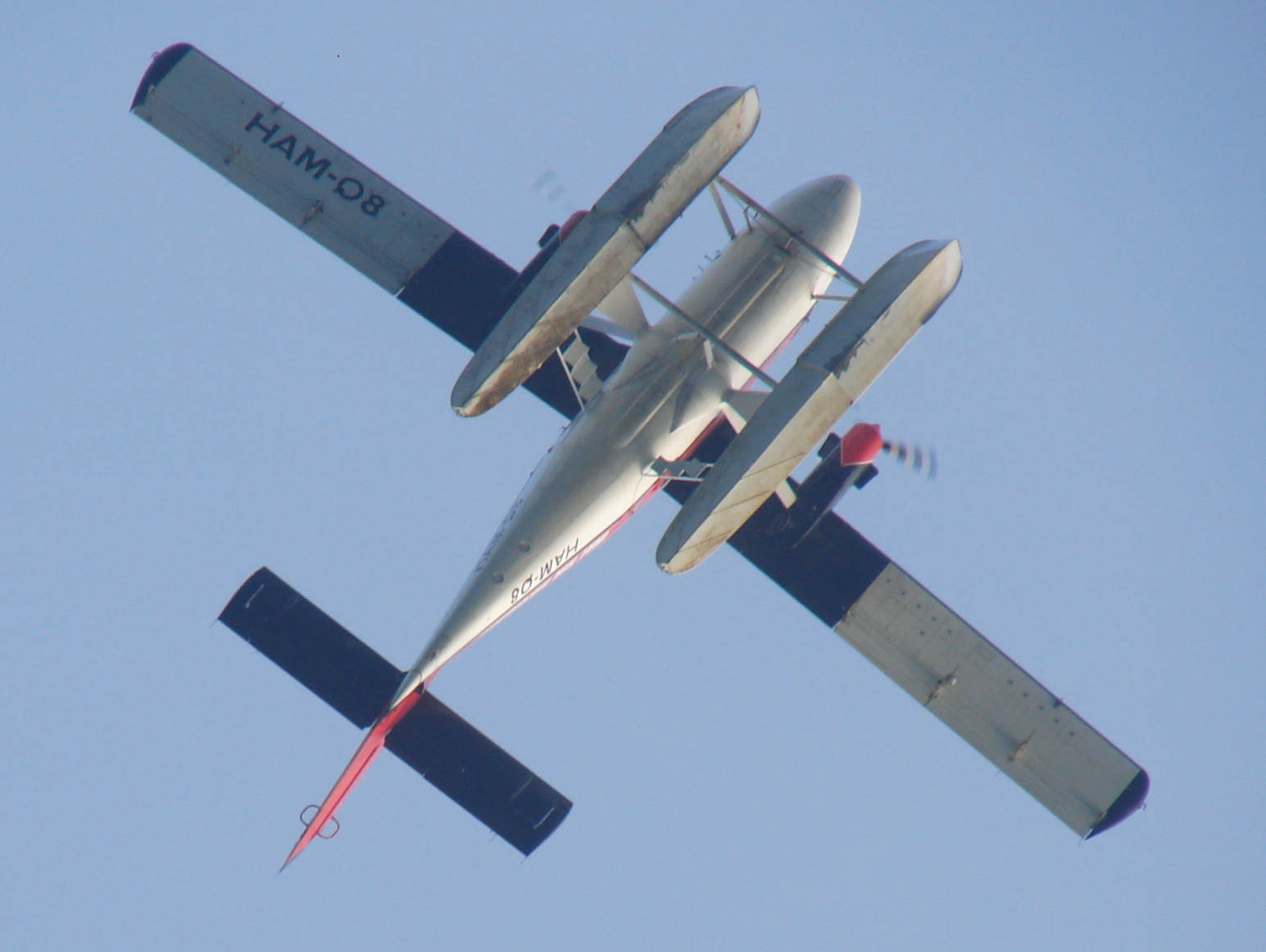 Photograph of 8Q-MAH DHC-6 Twin Otter floatplane (Maldivian Air Taxi), Maldives